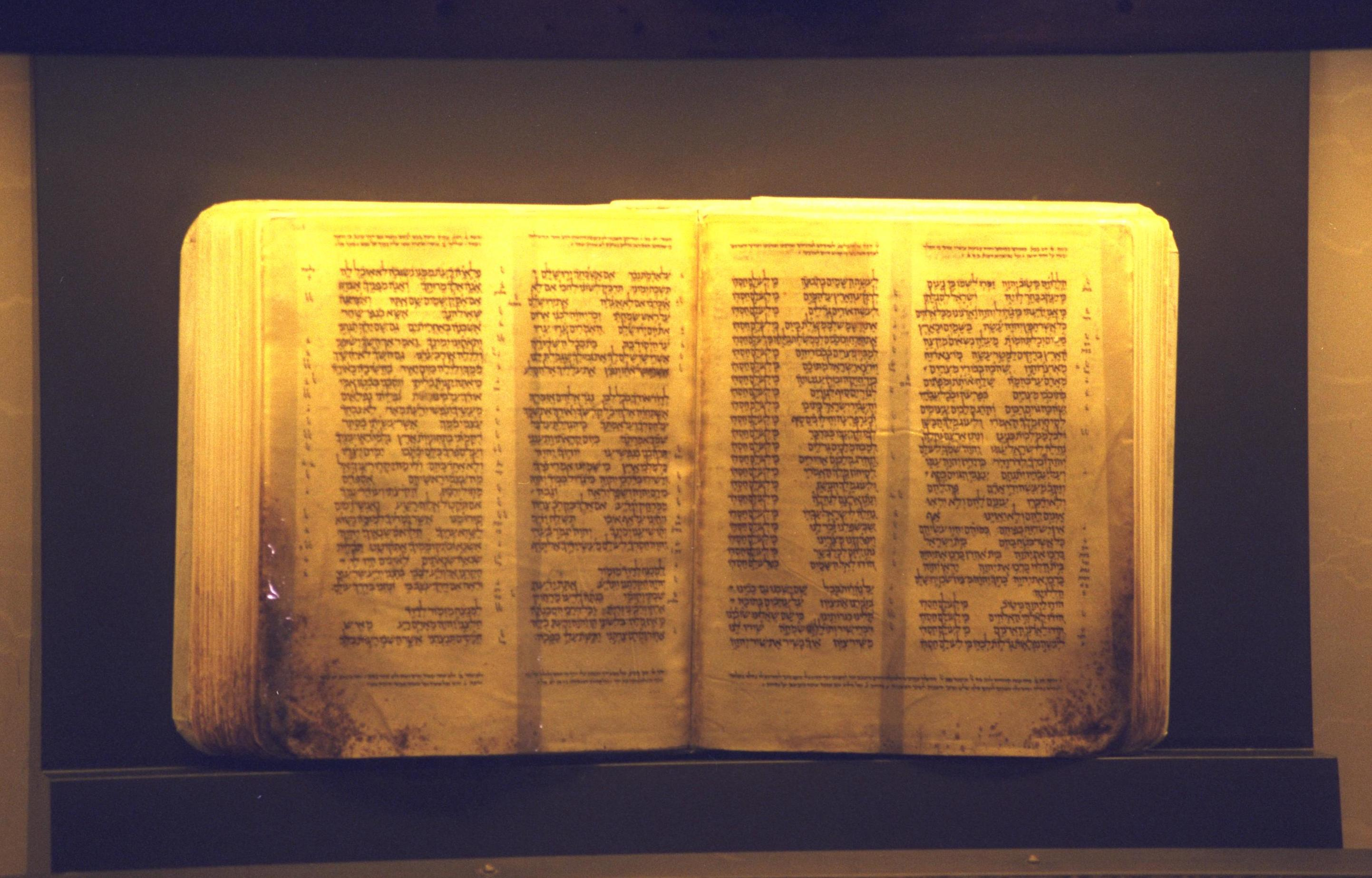 The Aleppo Codex on display in the Shrine of the Book at the Israel Museum in Jerusalem. כֶּתֶר אֲרַם צוֹבָא בהיכל הספר במוזיאון ישראל בירושלים. Photo: OHAYON AVI, 08/20/1995